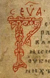 Archangel Gospel